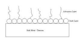 Bulk titanium with oxide formation and glycoprotein adsorption